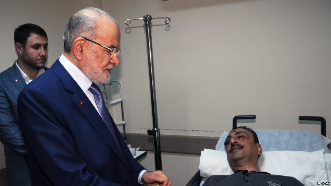 Felicity Part (SP) leader and presidential candidate Temel Karamollaoğlu visiting injured MP candidate Mehmet Fethi Öztürk in hospital